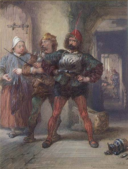 Mistress Quickly, Nym and Pistol, from Shakespeare's Henry V, (water colour) by Cattermole, Charles (1832-1900) Victoria & Albert Museum, London, UK